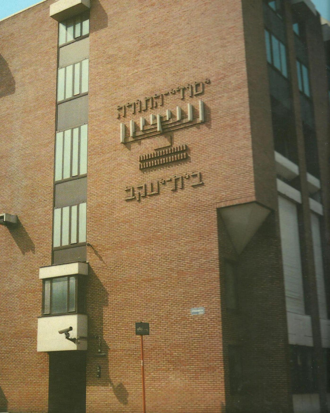 Voorgevel Jesode Hatora-Beth Jacob te Antwerpen